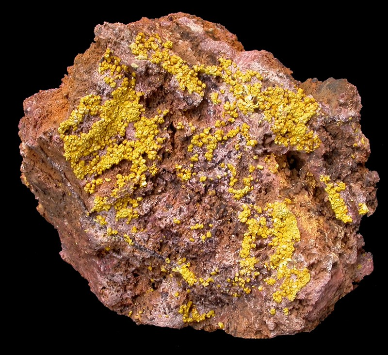 Soddyite Locality: Swambo Hill (Swambo Mine), Swambo, Central area, Katanga Copper Crescent, Katanga (Shaba), Democratic Republic of Congo (Zaïre) (Locality at ) Size: 7.5 x 7 x 5 cm. A large piece of typical matrix material from Swambo with hundreds perfect Soddyite crystals. Swambo is known to have produced the best Soddyite crystals in the world. This is a very good standard for the species. They where found during the prospecting in the late 1950s – early 1960s. A very colorful specimen with crystals in the 1-2 mm range.